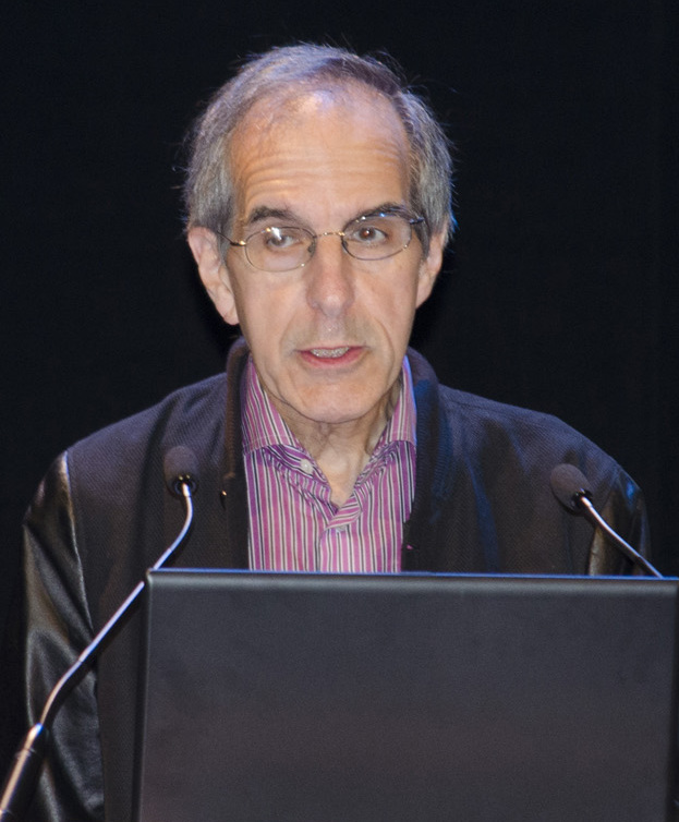 Alex Bateman (left) and Cyrus Chothia (right), at the Intelligent Systems for Molecular Biology conference in 2015